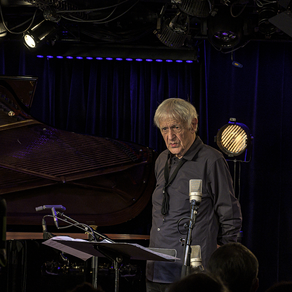 French Musician Michel Portal, Le Trition, Paris (nov. 2019=